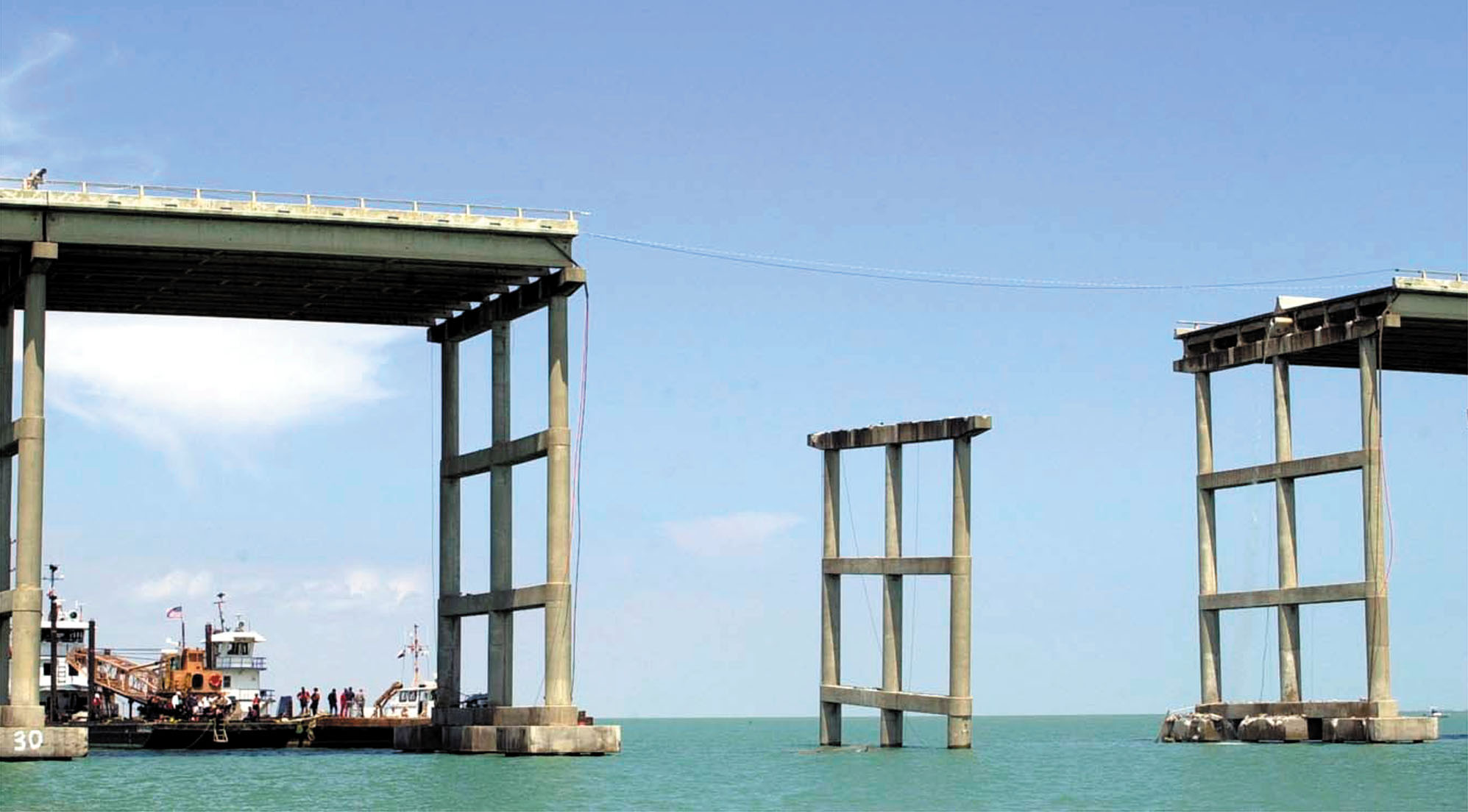 Coast Guard Cutter Mallett crewmembers and Department of Public Safety personnel survey the damage done to the Queen Isabella Causeway near South Padre Island, Texas, September 15, 2001. A tug pushing four barges collided with the causeway, causing 10 cars to fall into the water.